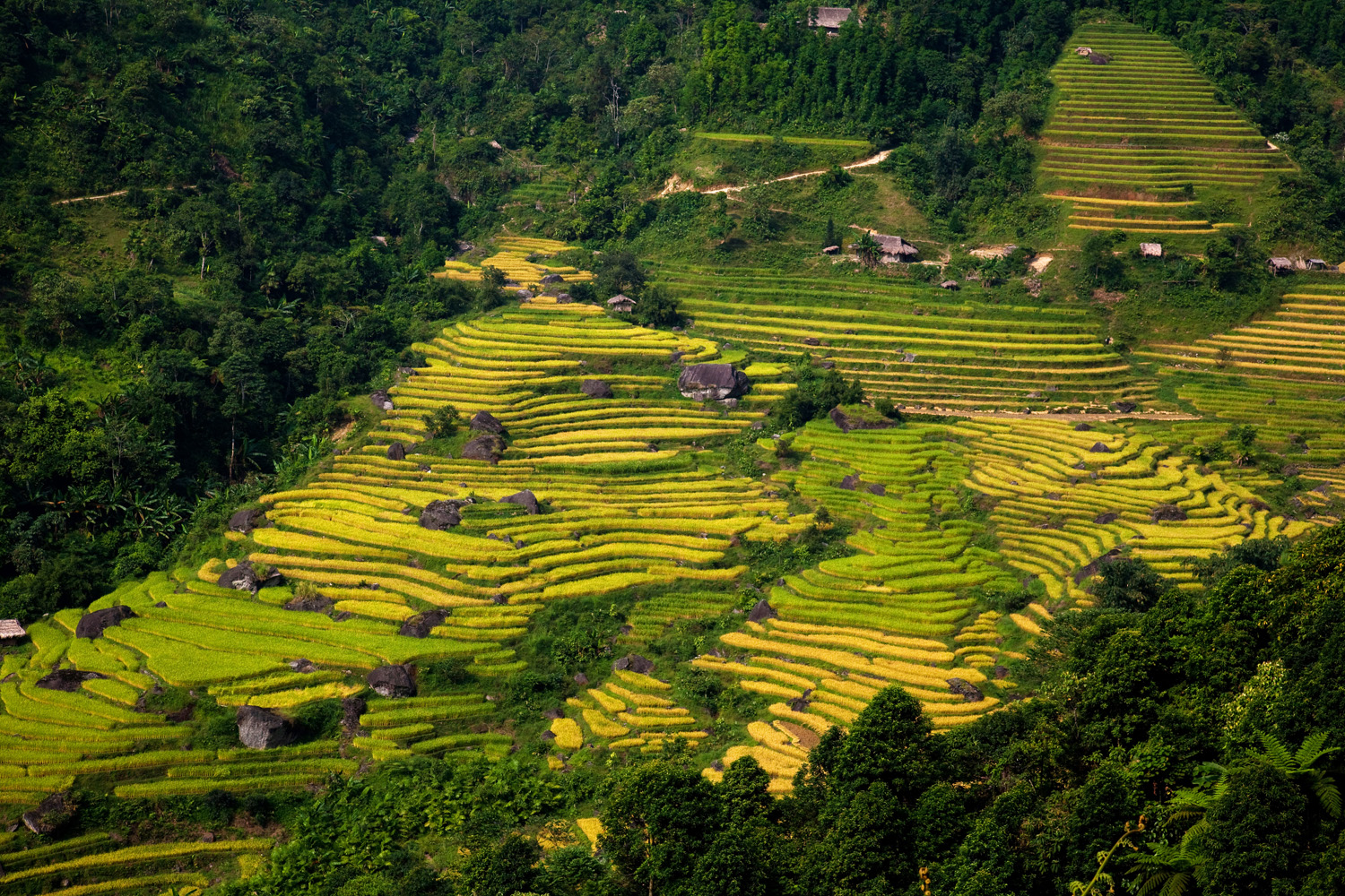 Rice Terraces Fields in unknown place in Vietnam